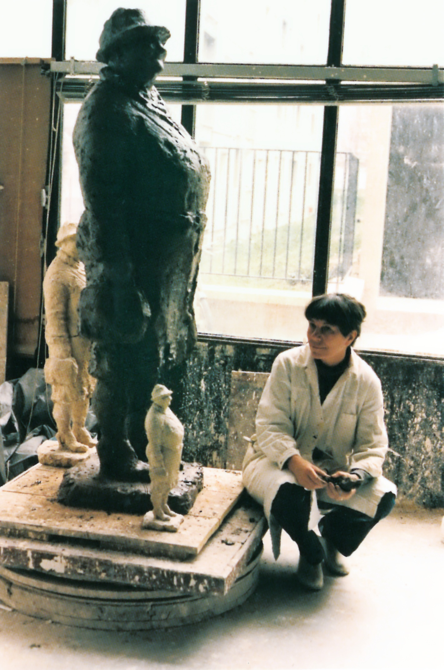 The sculpture "Go'dagen" (=Good day; more like 'ello) was made in 1980 by the Norwegian sculptor Tone Thiis Schjetne. The sculpture is cast in bronze. One version is in Stavanger, another in Trondheim, Norway. Tone Thiis Schjetne (1928–2015), Norwegian sculptor. Daughter of Helge Thiis and Greta Thiis, sister of Ragna Thiis and Aina Thiis Leirdal.